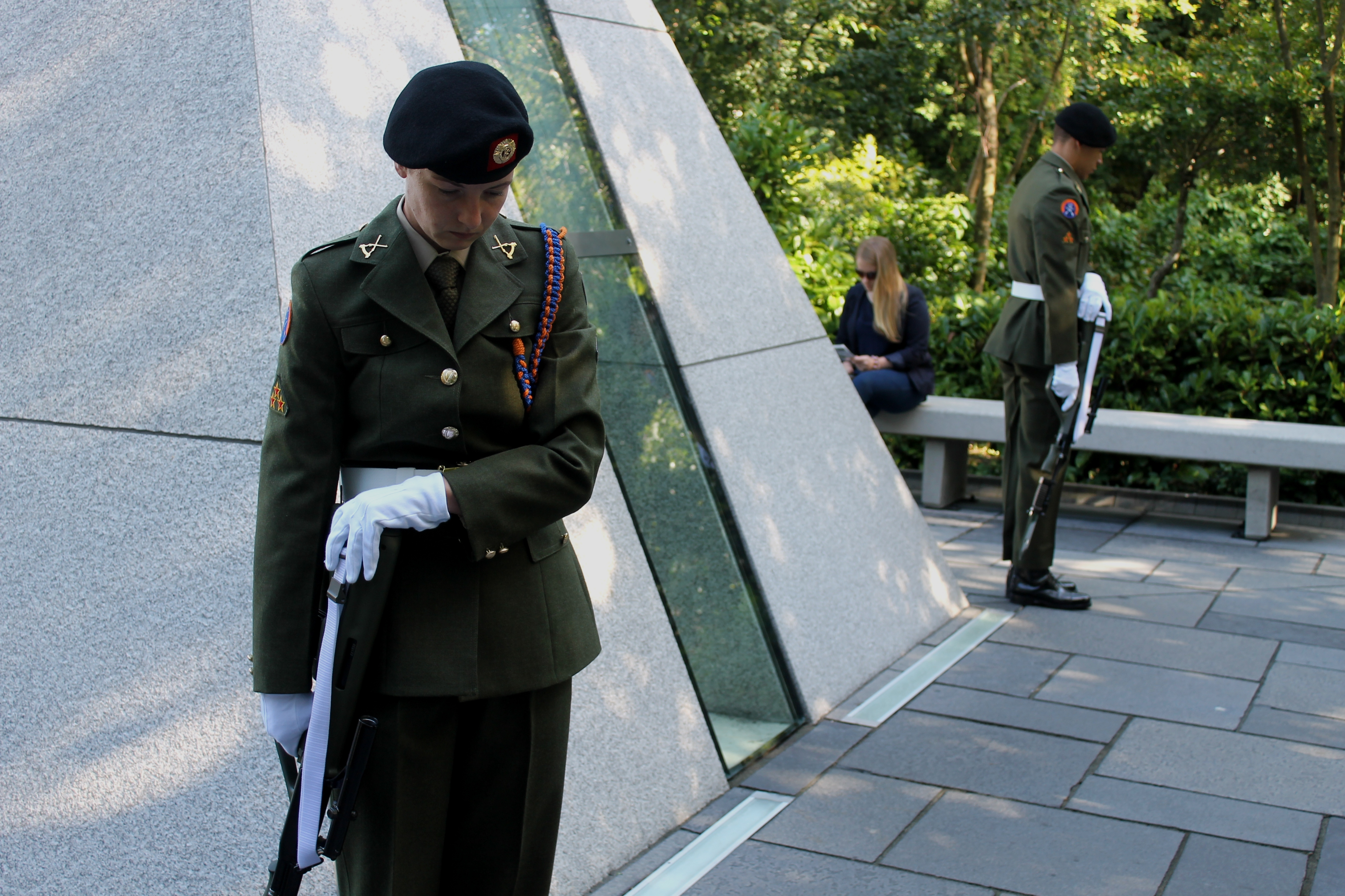 12th Battalion Soldiers on parade.